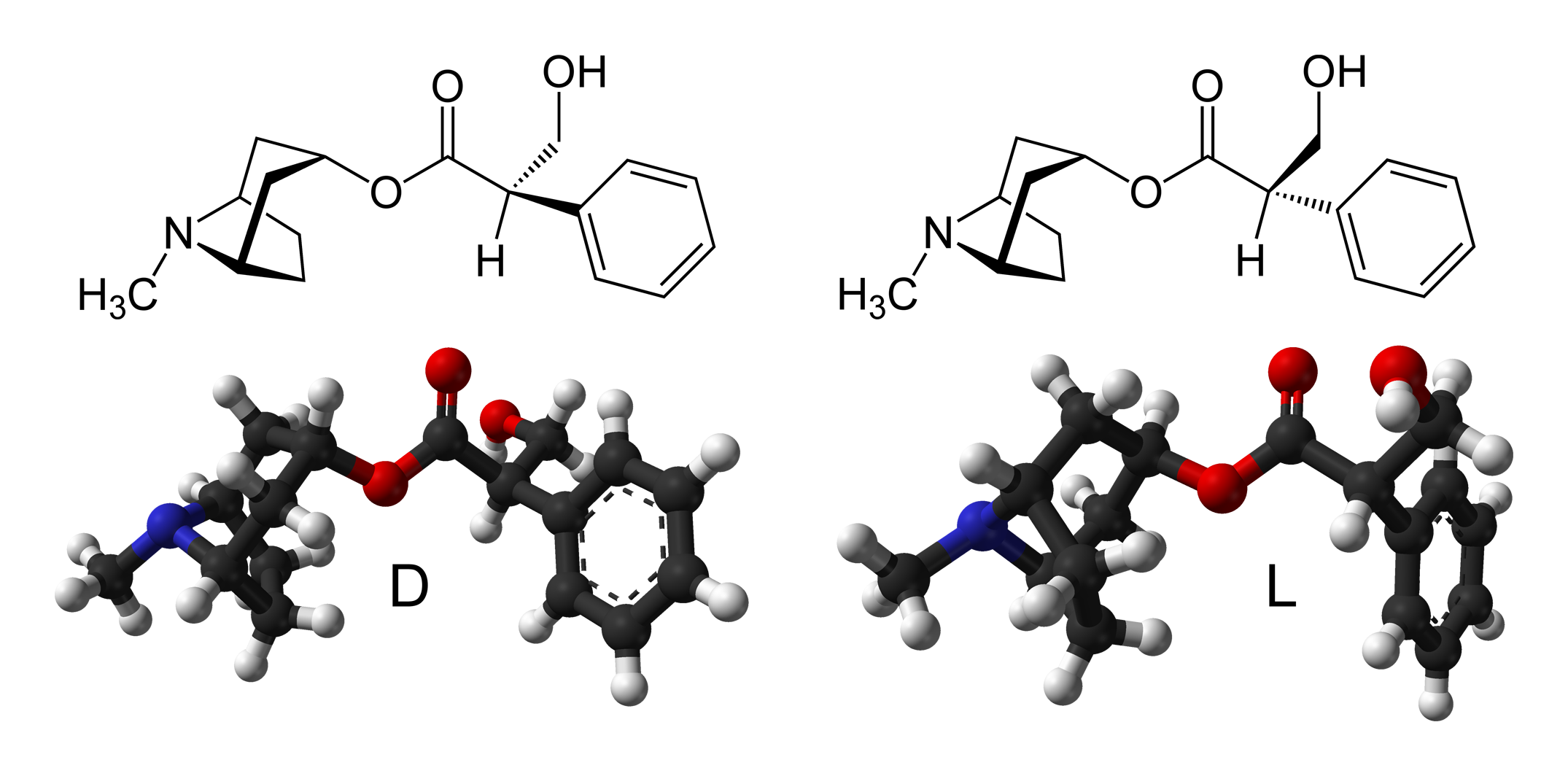 Skeletal formulae and ball-and-stick models of the D and L isomers of the atropine molecule, C17H23NO3 . X-ray crystallographic data from Comput. Biol. Chem. (2004) 28, 375-385. Model constructed in CrystalMaker 8.1. Image generated in Accelrys DS Visualizer.